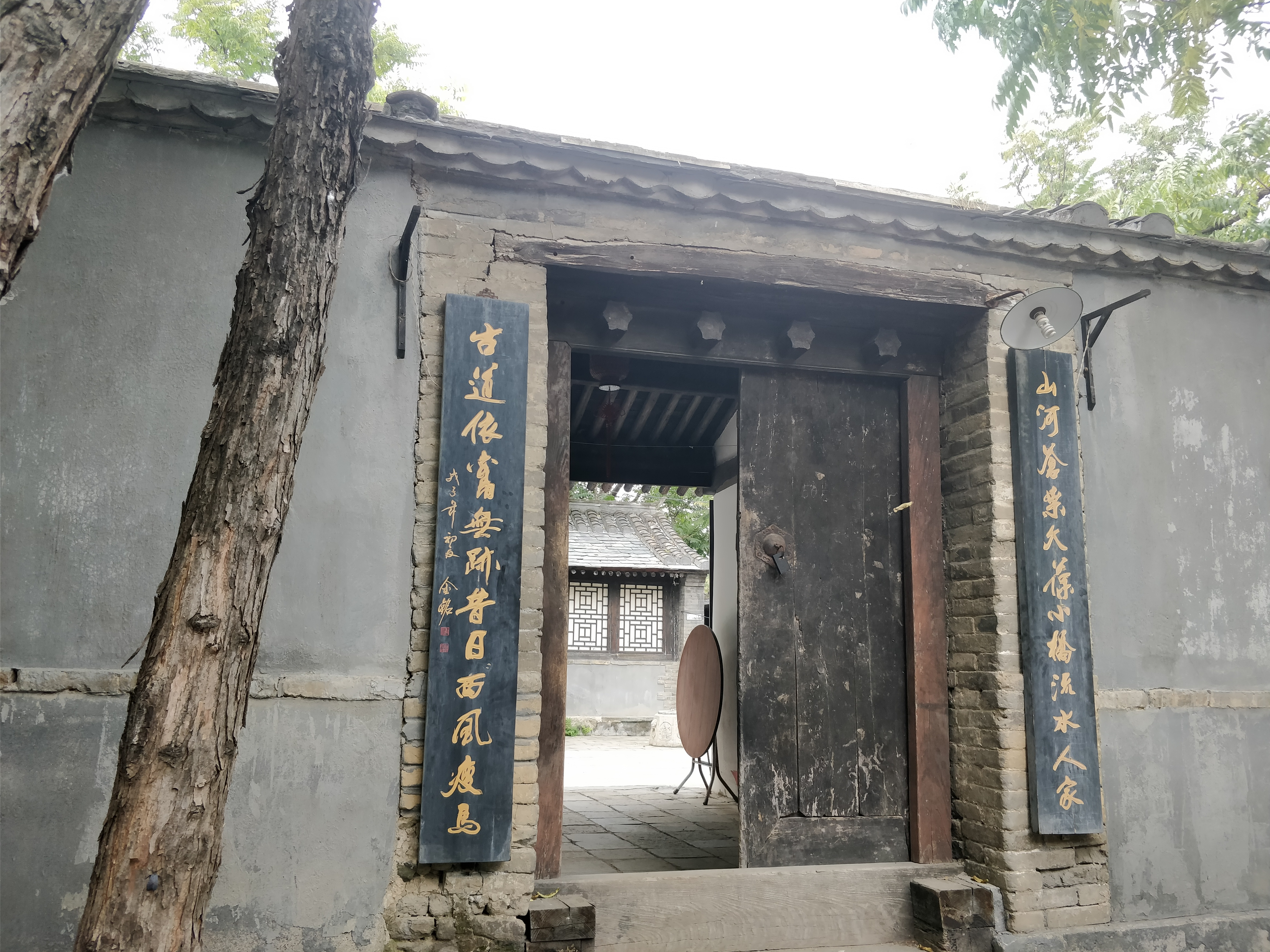 The gate of the Former Residence of Ma Zhiyuan in Beijing.